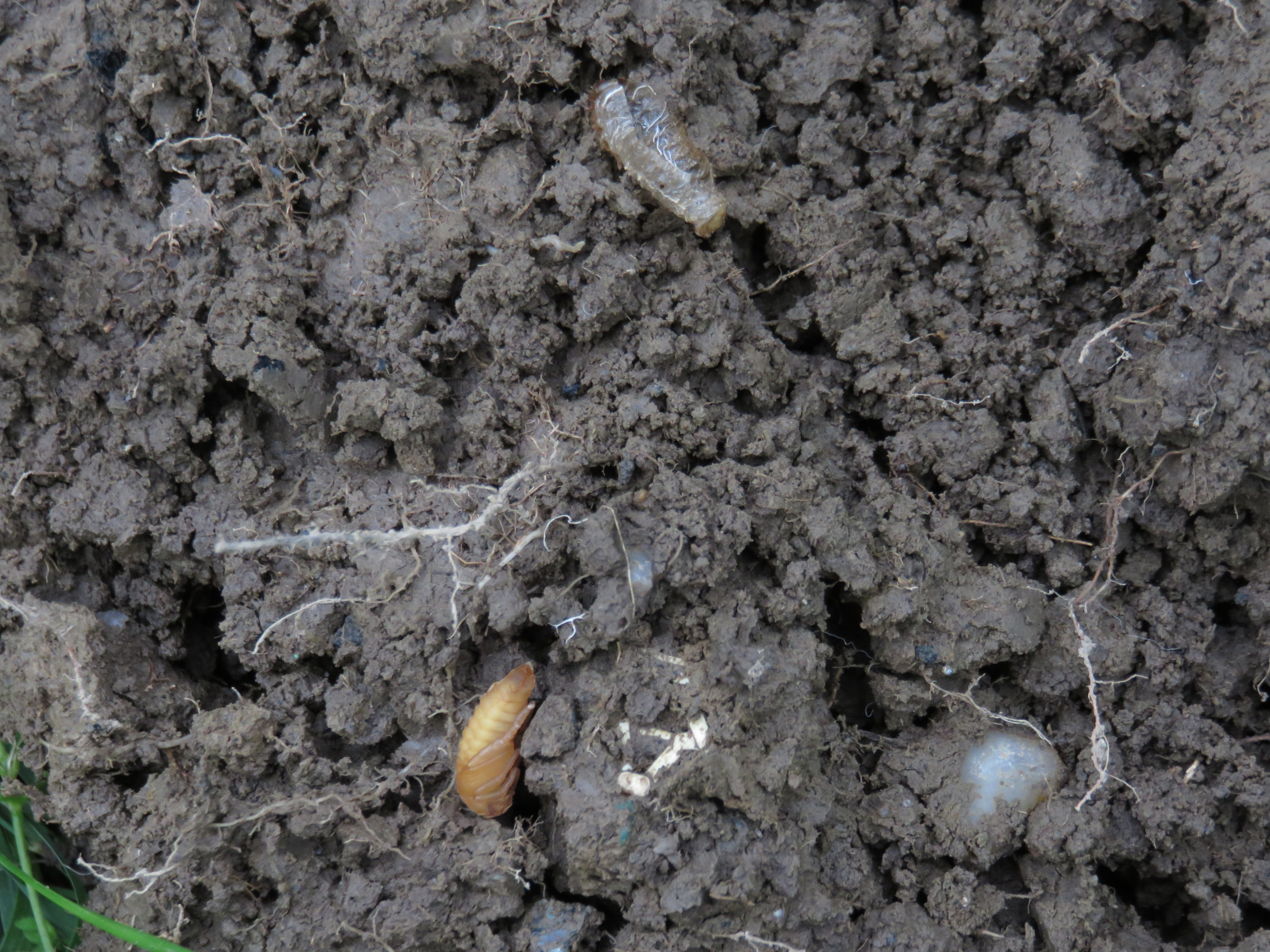 Japanese beetle pupa of Northern Virginia, just after moulting